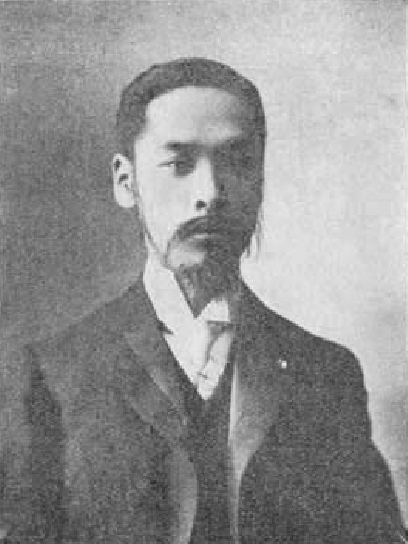 Lee Ji-yong Portrait